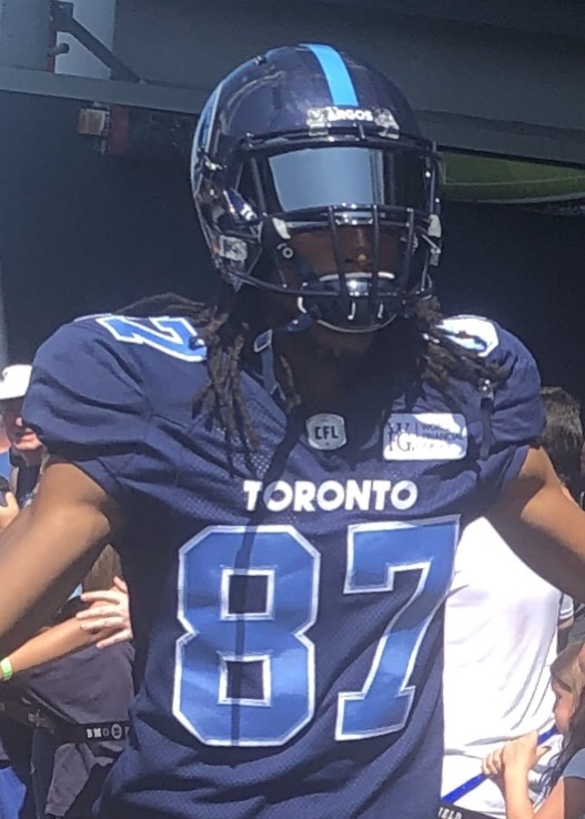 Derel Walker, receiver for the Toronto Argonauts.